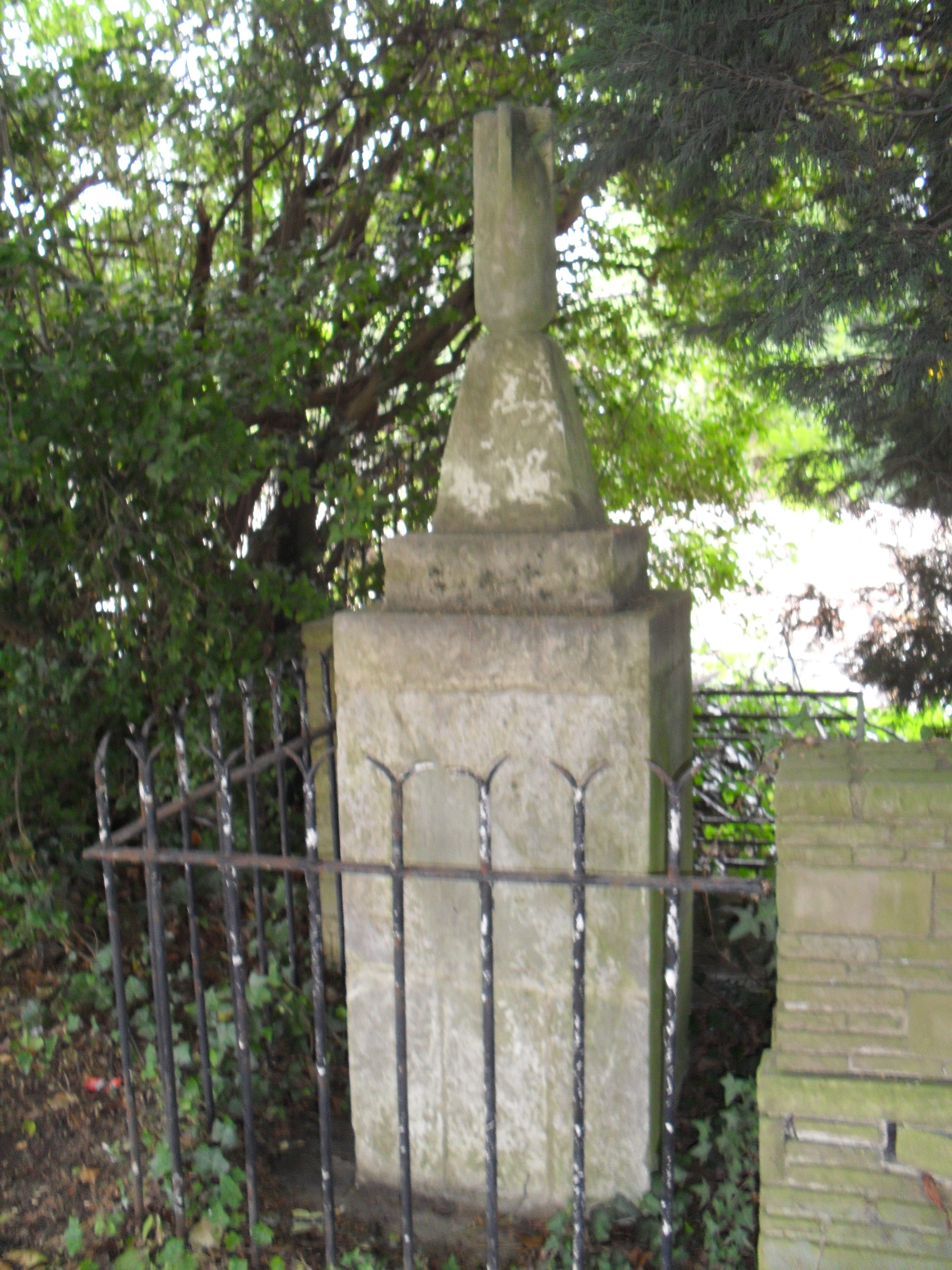 Anti-war memorial in Woodford Green, Essex, commissioned and dedicated in 1935 by Sylvia Pankhurst.